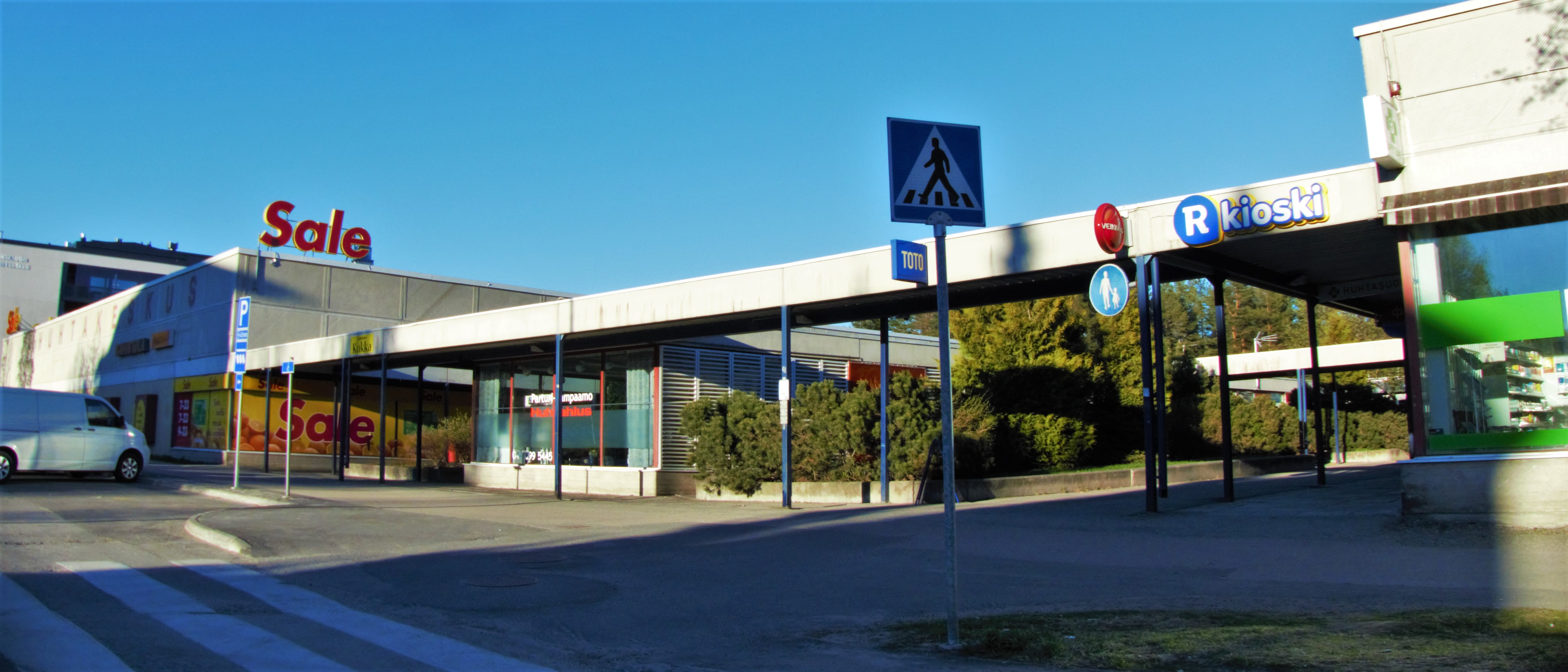 Huhtakeskus mall, Huhtasuo, Jyväskylä